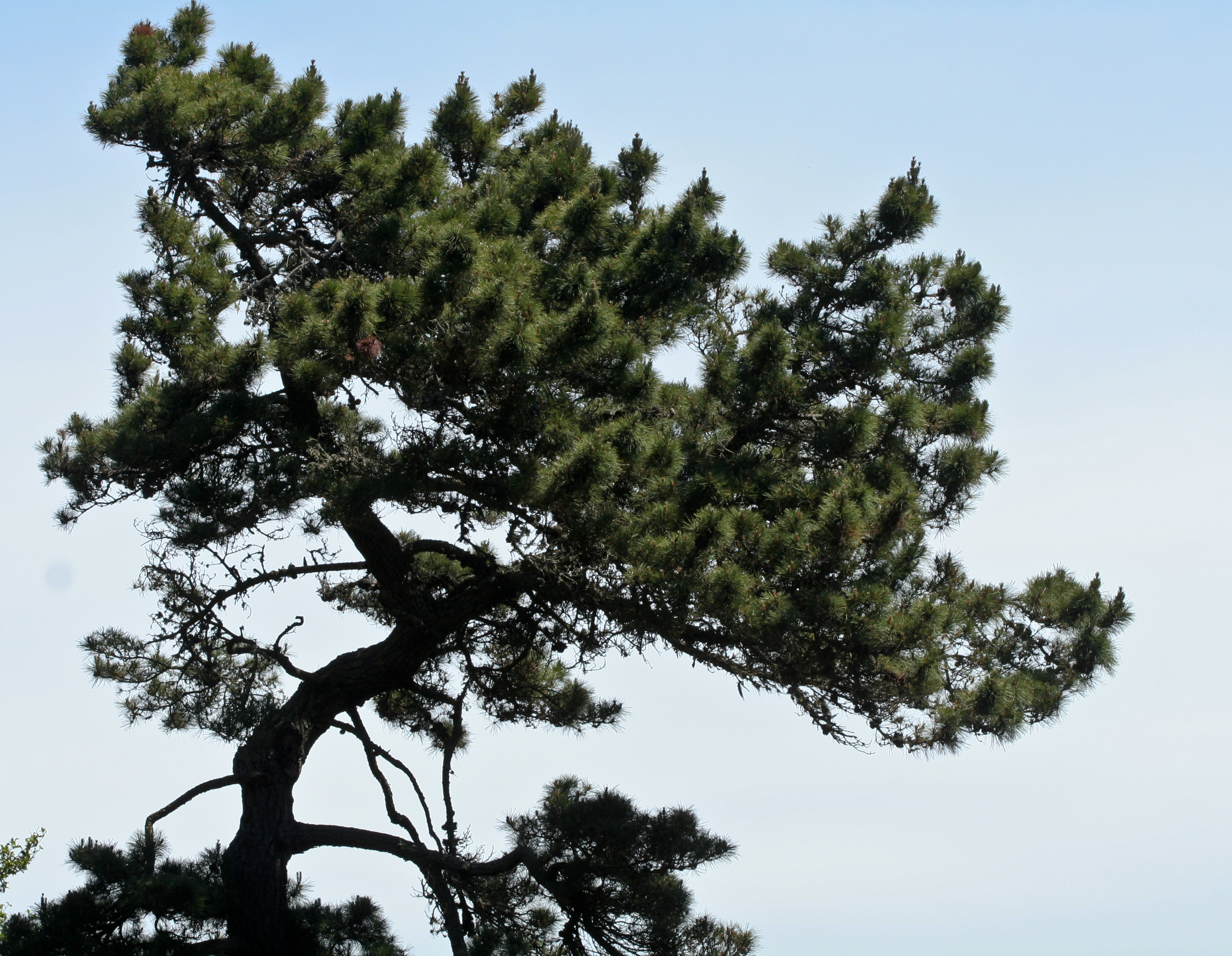 Pinus muricata northern form, Fort Bragg, Mendocino, California.